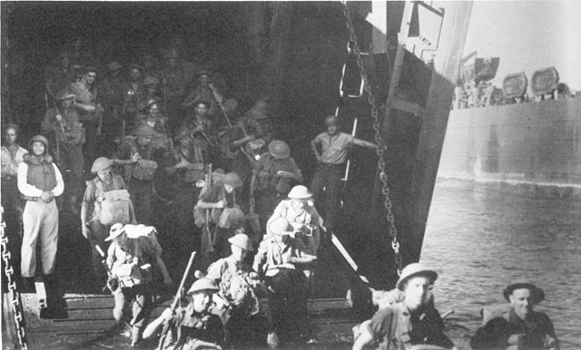 Australian troops disembarking from LSTs for the occupation of Lae.